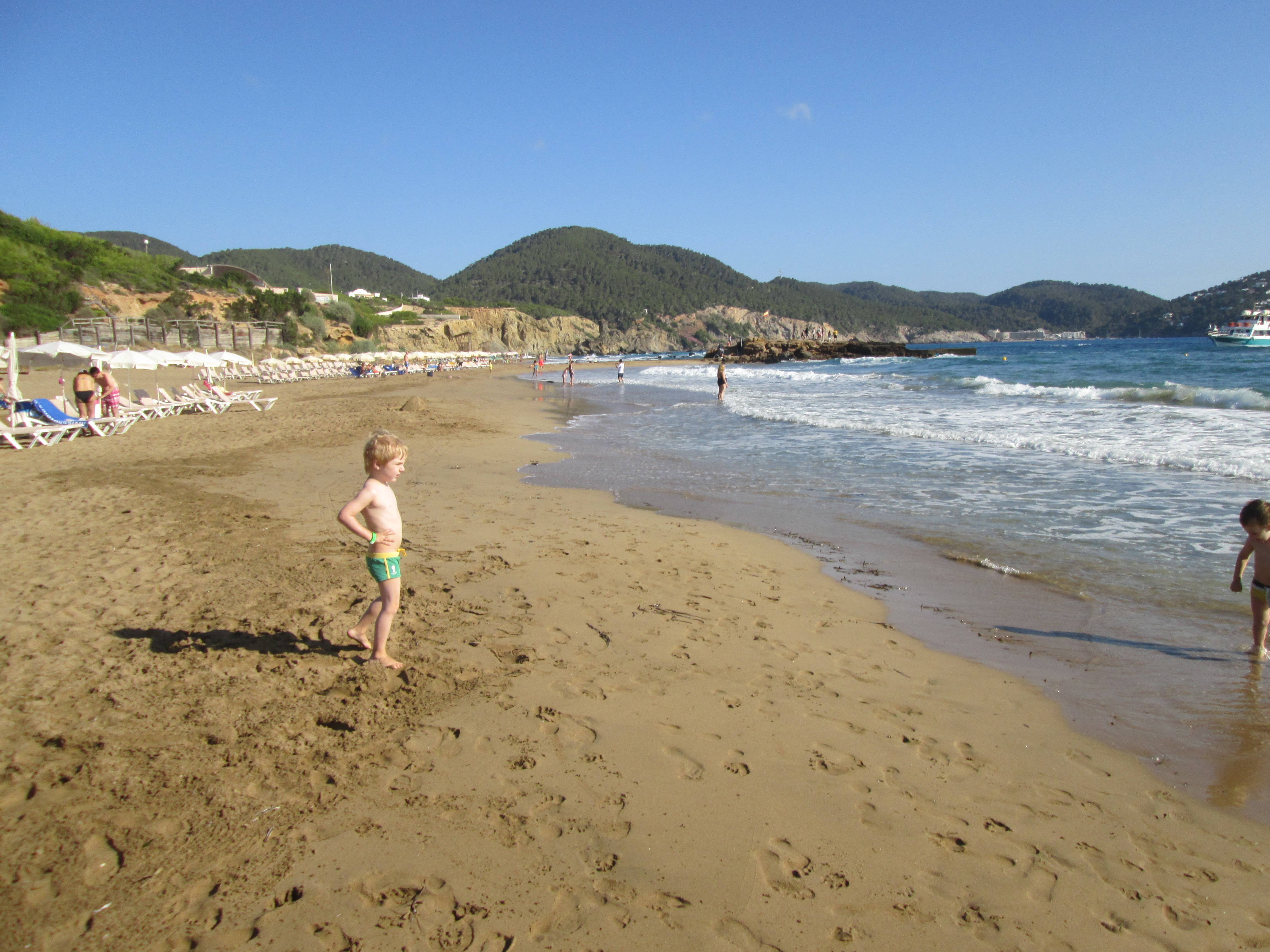 Playa Es Figueral - Santa Eularia des Riu - Spain